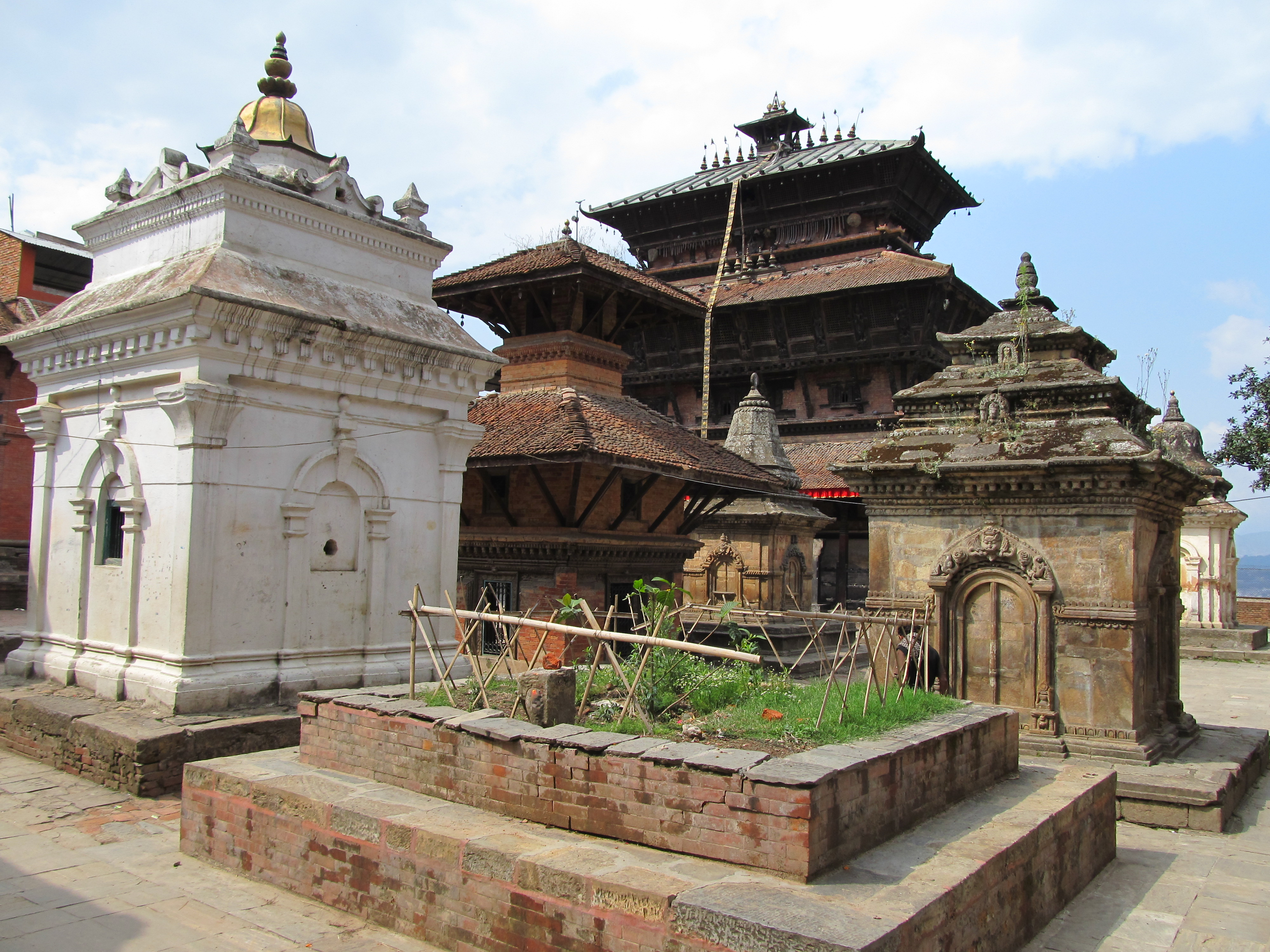 Bhagbhairab Temple